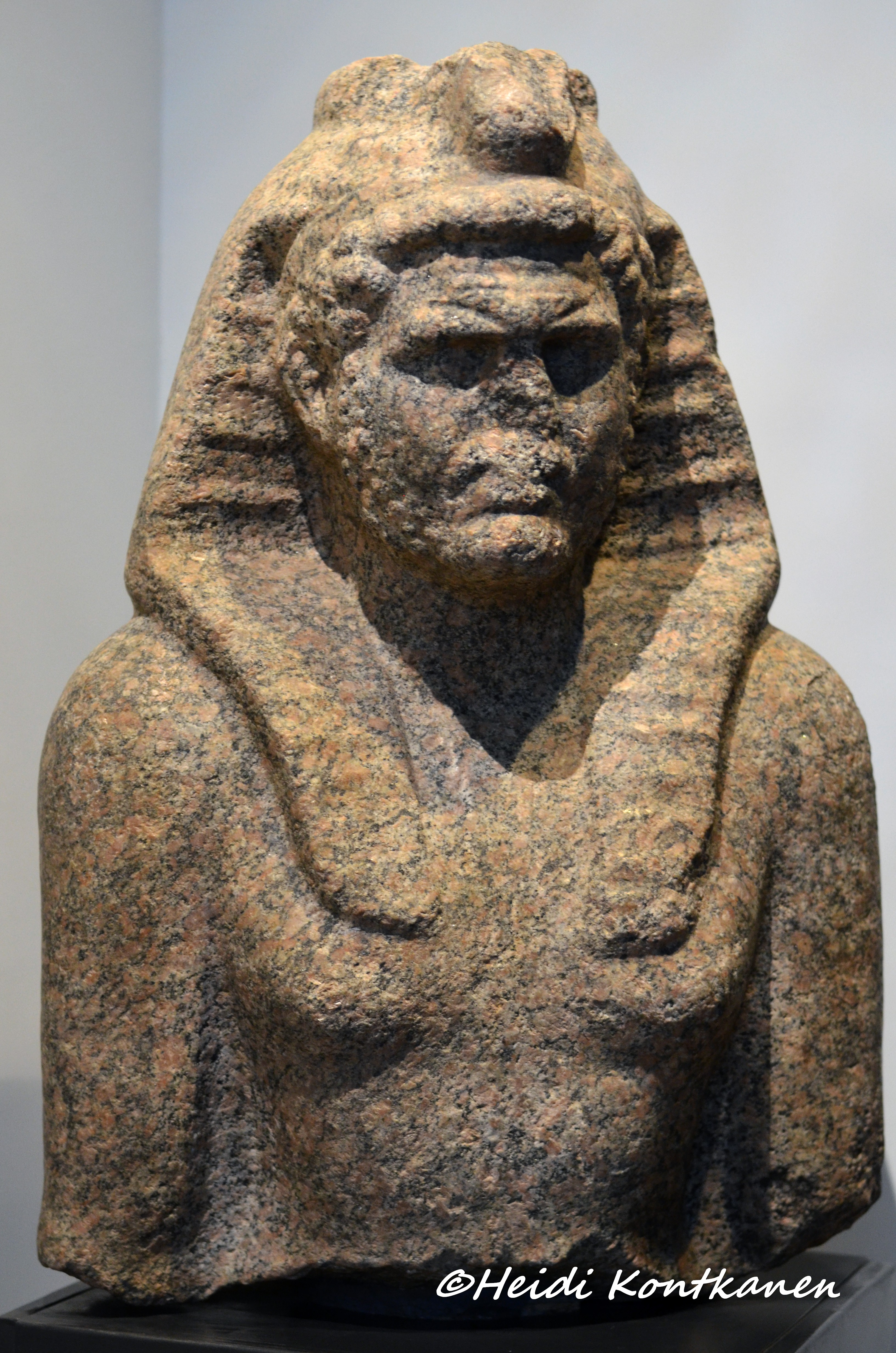 Head and torso of Caracalla as a Pharaoh. An over life-size statue wearing a banded nemes and ureaus with Roman-style forehead hair and beard. Facial features identify it as Caracalla, especially the furrowed brow. Roman Period, found from the Nile Bank opposite Terenouthis.